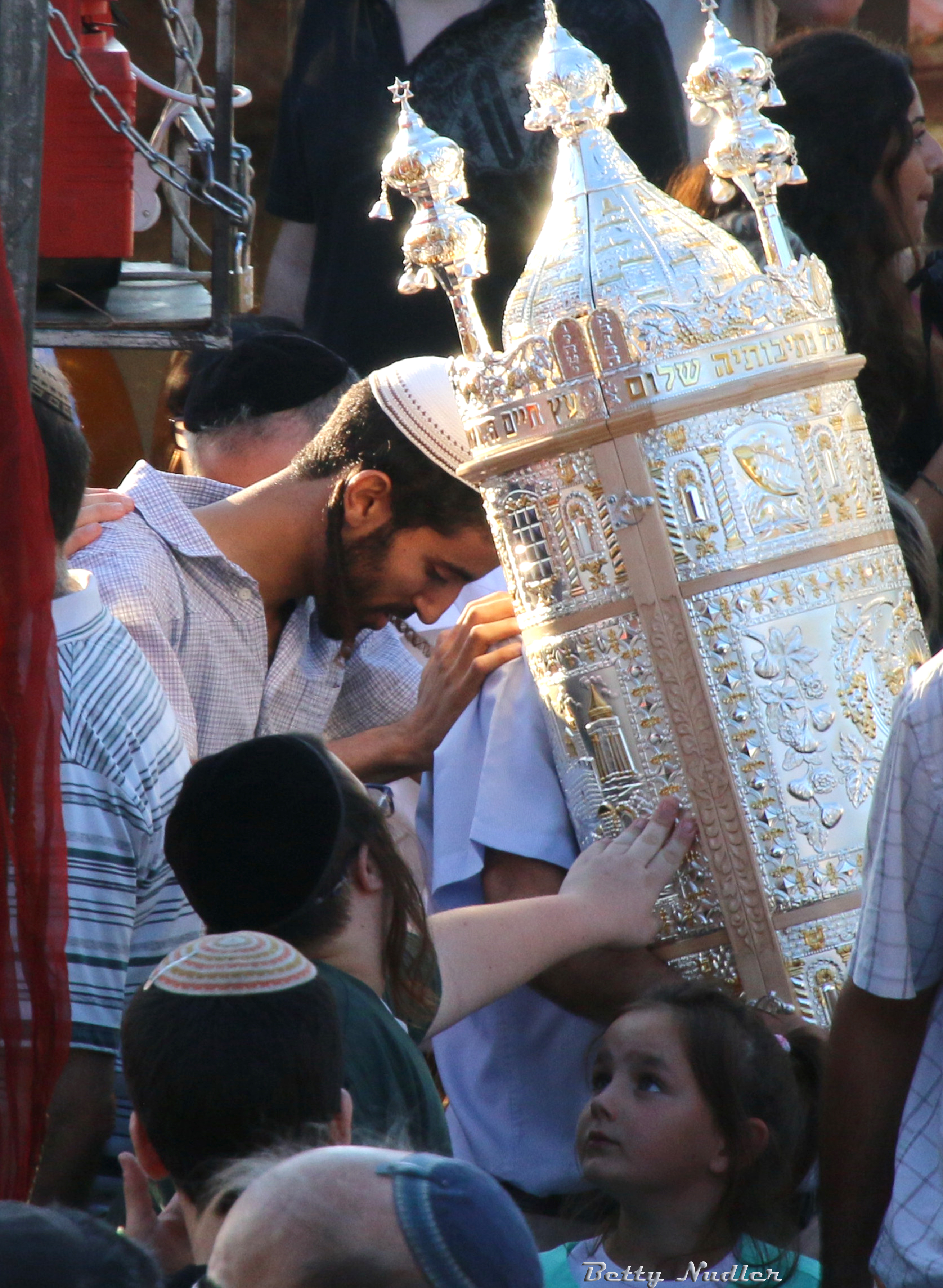 we must never lose faith